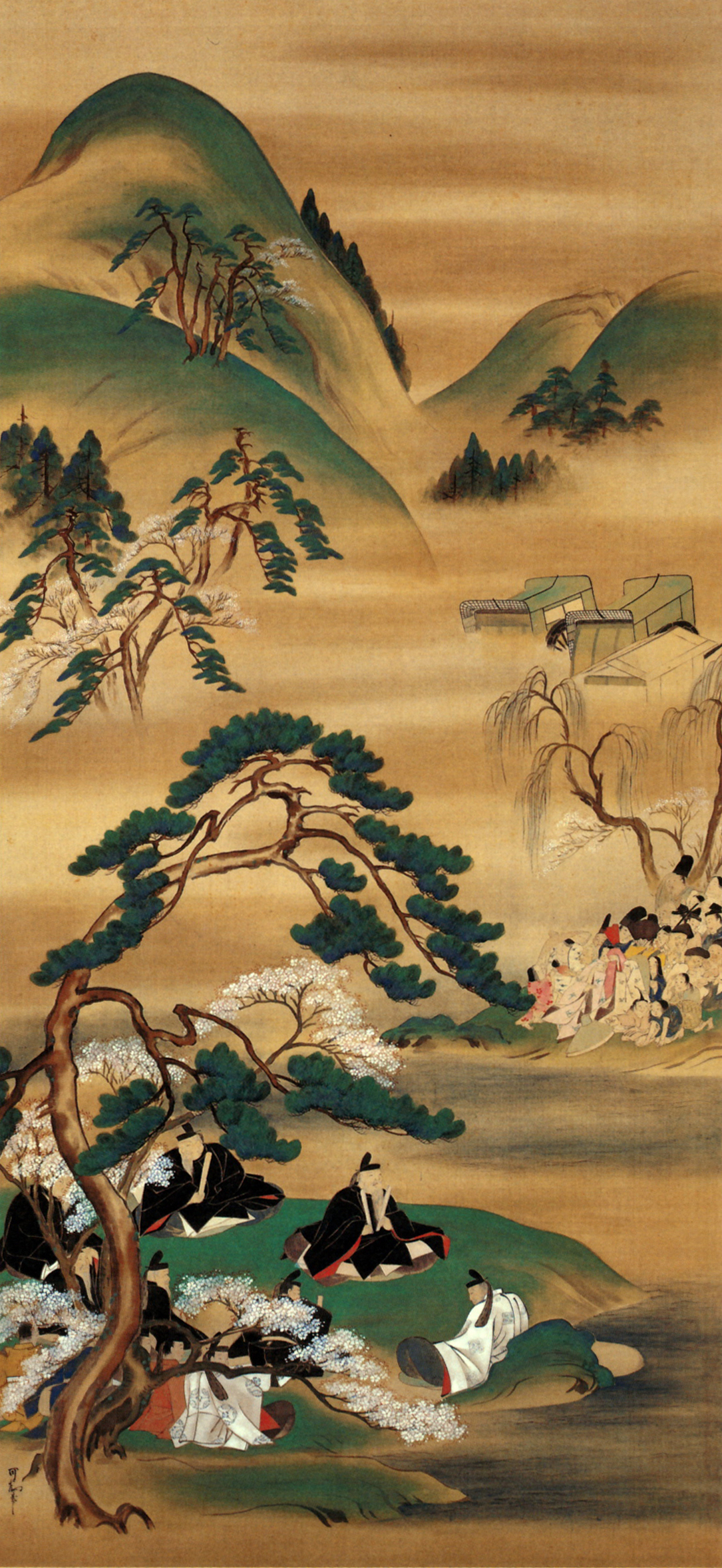 Ukita Ikkei, Meeting for Making Poems at Shirakawa,color on silk, hanging scroll